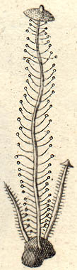 Drawing of the mushroom now known as Dendrocollybia racemosa